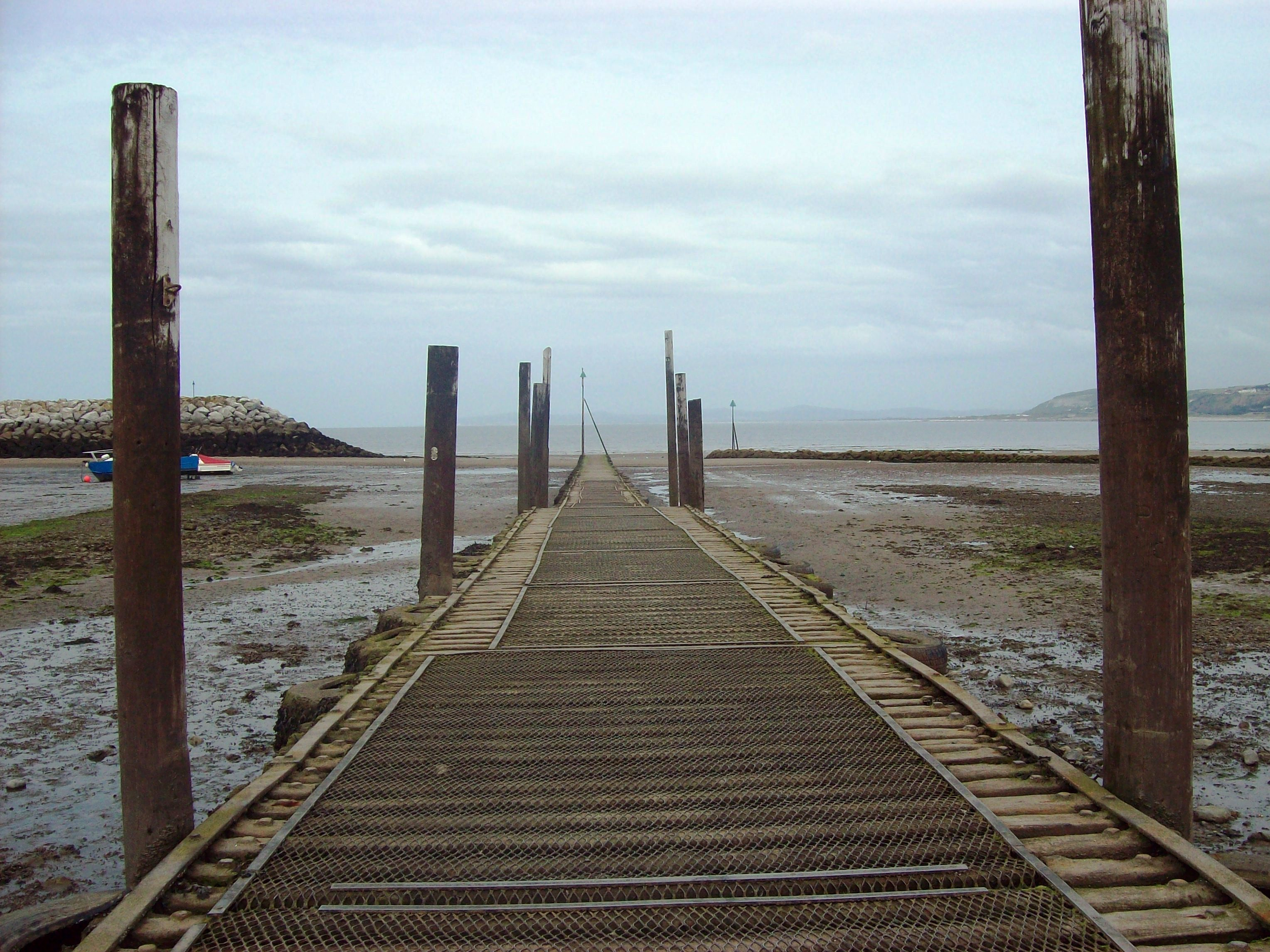 Jetty at Rhos-on-Sea Beach, Wales.